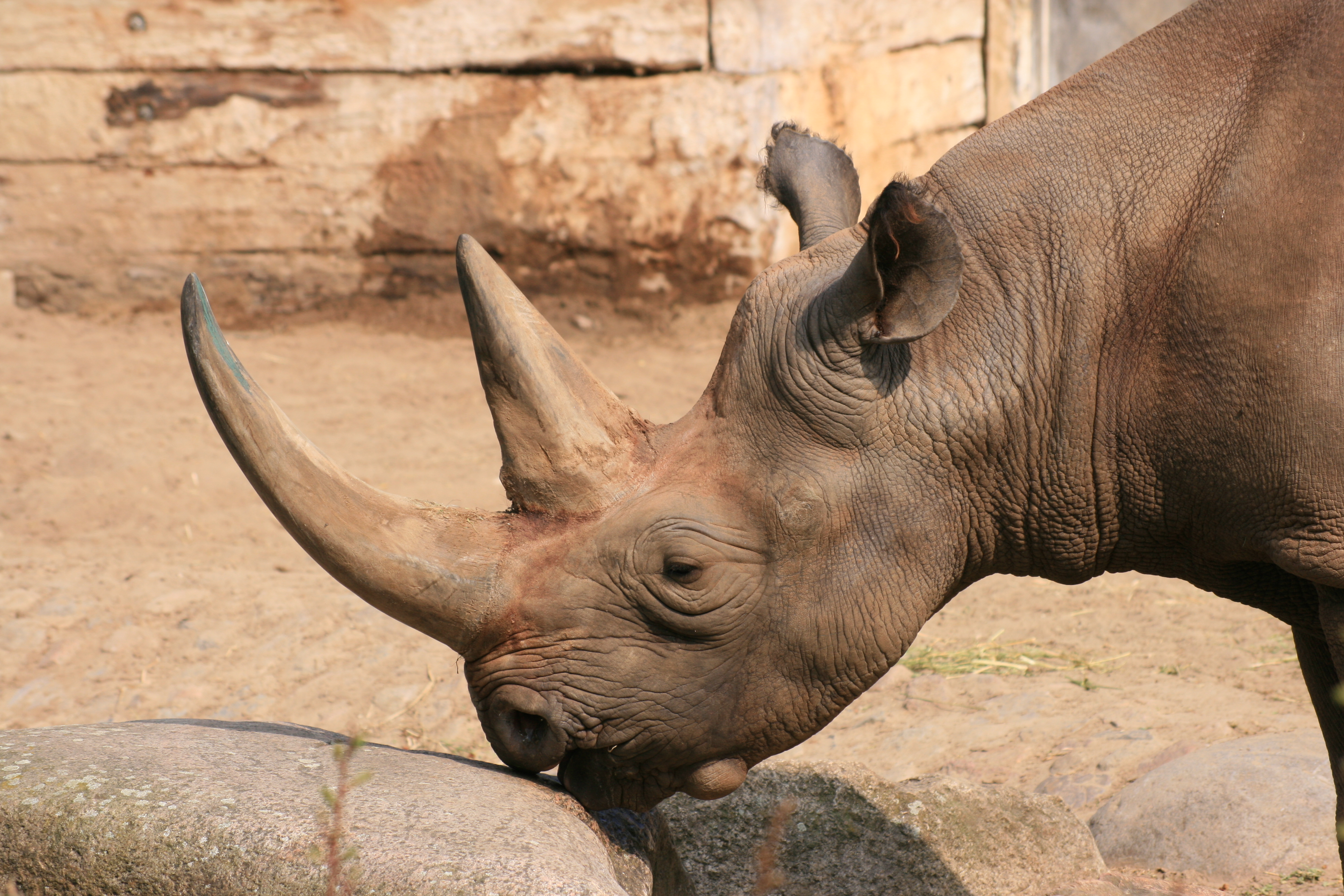 Head of a Black Rhinoceros (Diceros bicornis)